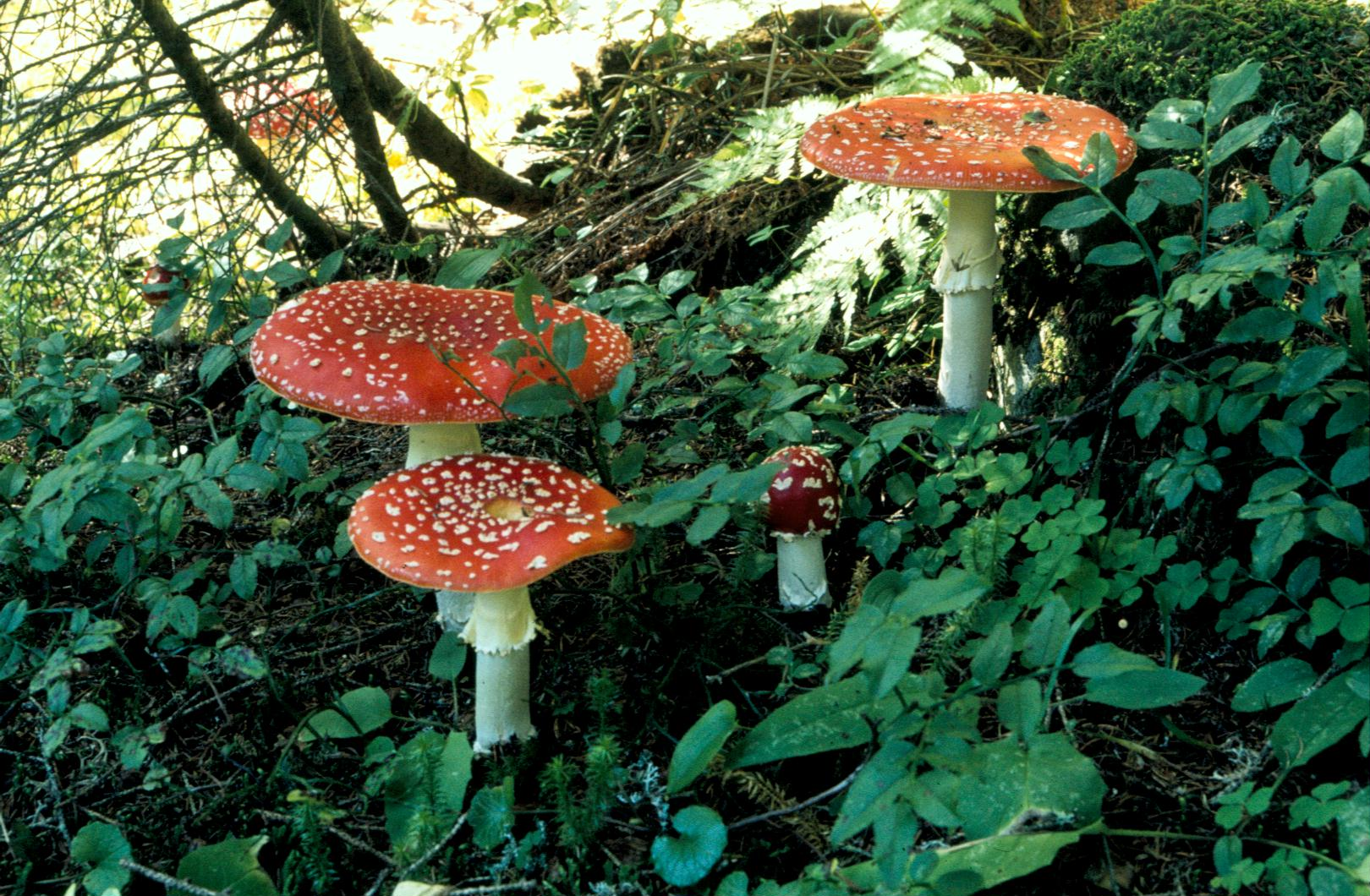 Fly Agaric, toadstool (Amanita muscaria) in Gelsenkirchen, Germany, 1975